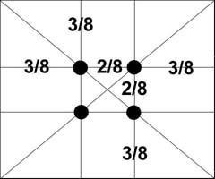 Golden ratio in art